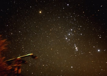 Photography of constelation Orion.